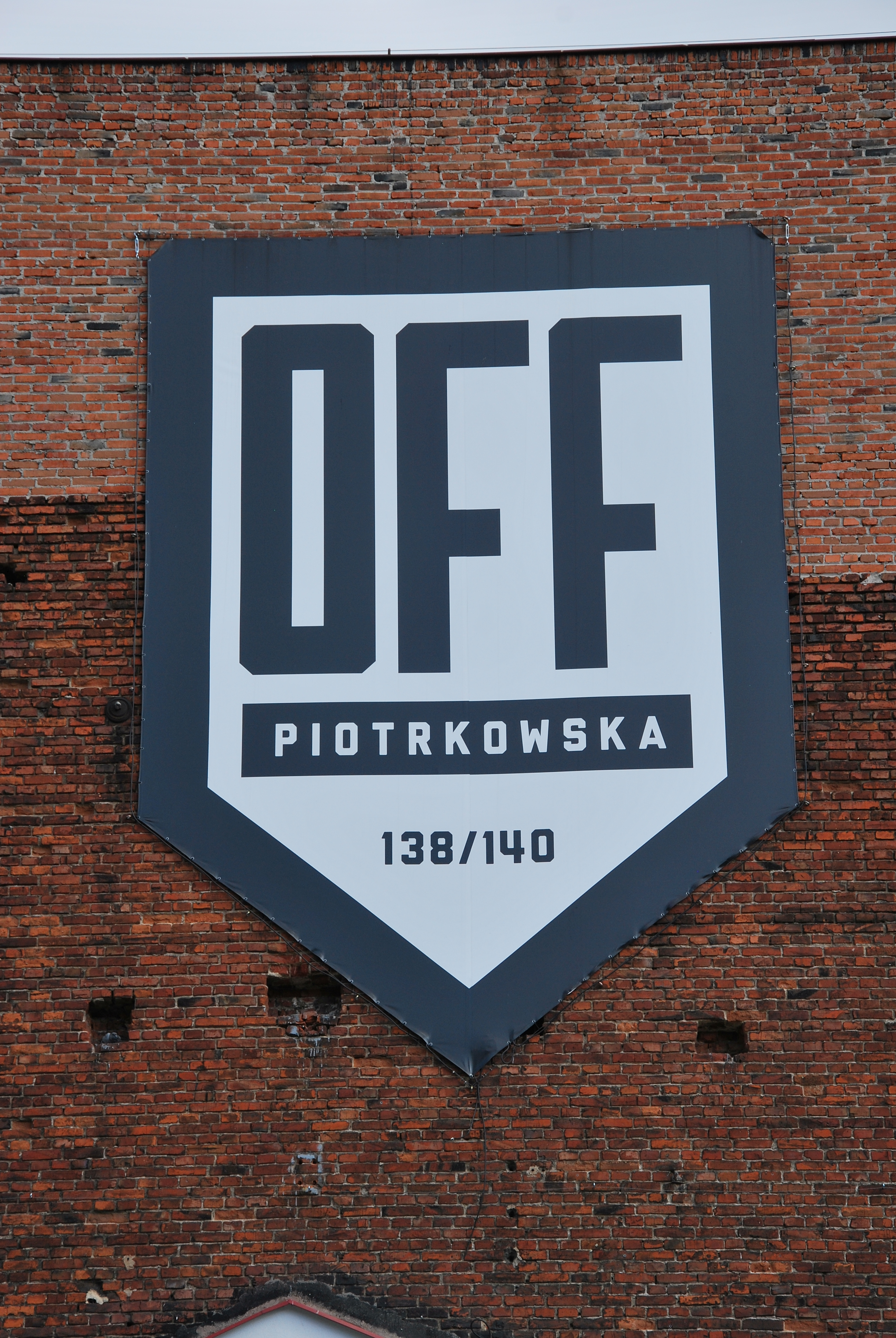 Off Piotrkowska in Łódź logo